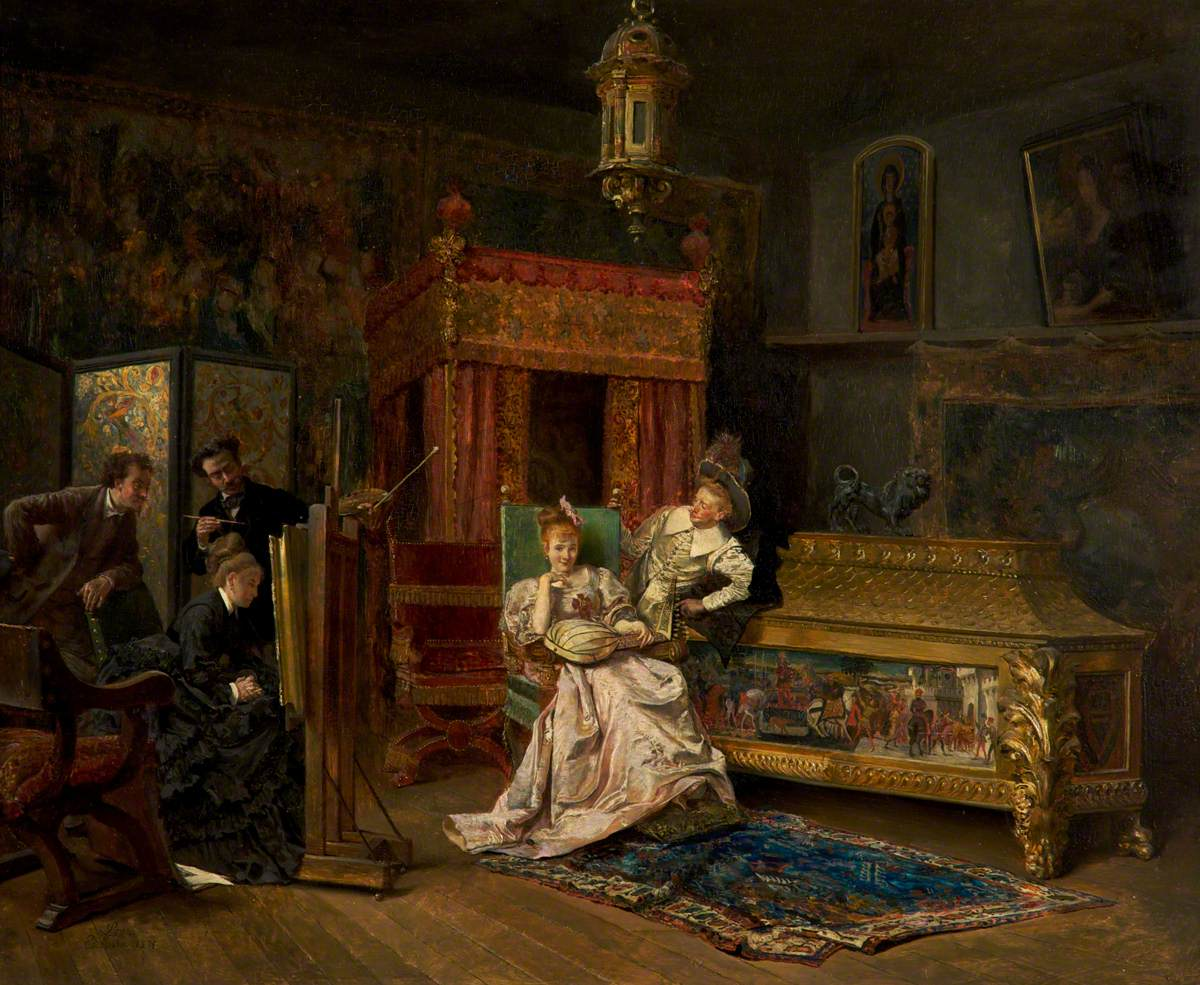 de Leon y Escosura, Ignacio; The Artist's Studio; Rochdale Arts & Heritage Service